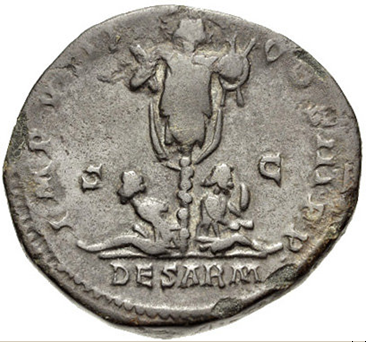 Reverse of Dupondius coin (24mm, 12.28 g, 11h) of Emperor Marcus Aurelius. AD 161-180.. Rome mint. Struck AD 177. Legend: IMP(ERATOR) VIII CO(N)S(UL) III (TERTIUS) PP; across field: S(ENATUS) C(ONSULTO); in exergue: DE SARM(ATIS); Seated male and female Sarmatian captives (the right-hand female with head resting on hand, possibly a representation of the defeated "Sarmatia", (c.f. similar imagery on coins showing defeated "Germania", "Armenia" etc. in similar poses) flanking vexilium draped with spoils. Catalogue :RIC III 1188. VF, brown patina, area of roughness on portrait. From the White Mountain Collection.